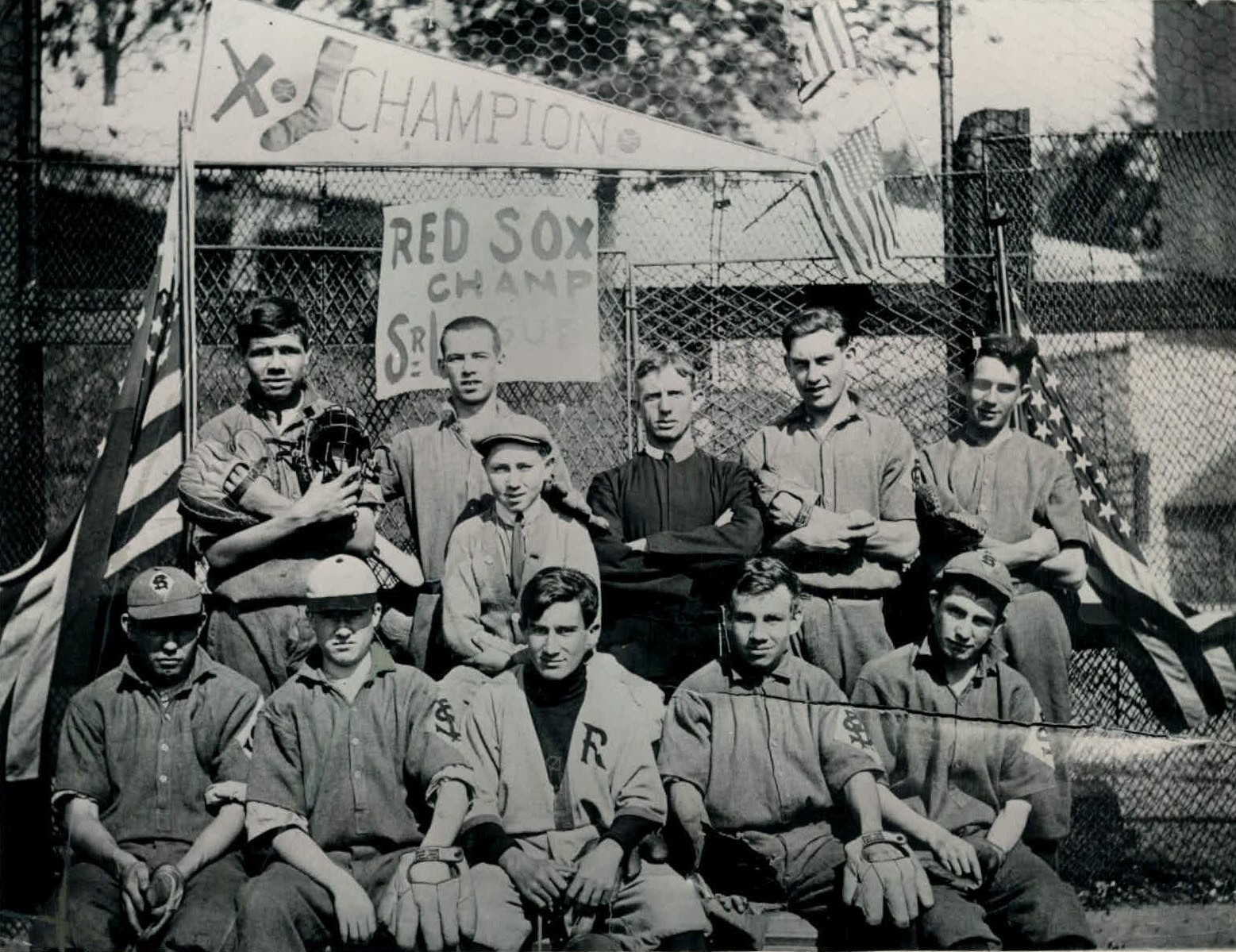 Babe Ruth (top row, left) at St. Mary's Industrial School for Boys, Maryland - 1912